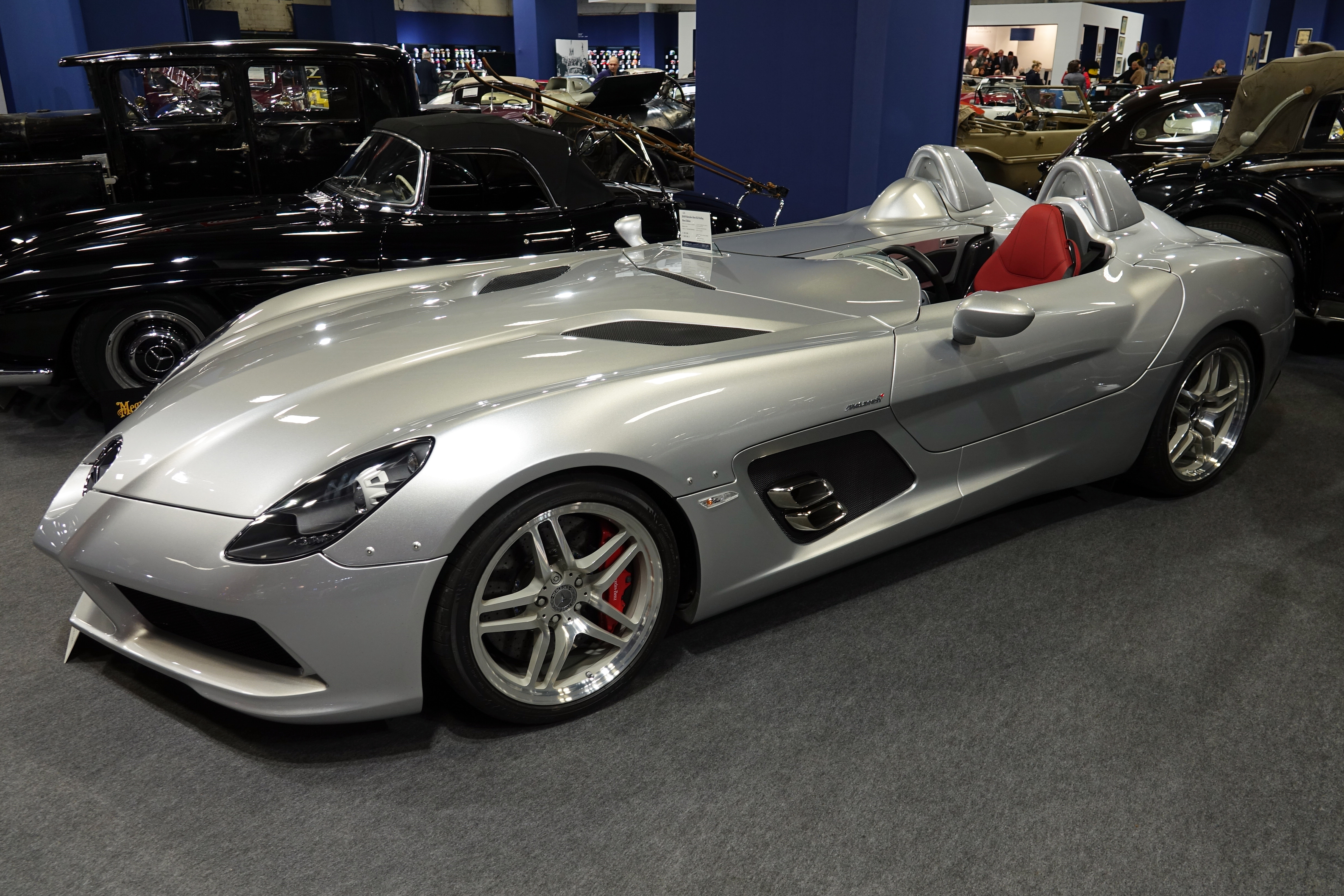 2009 Mercedes-Benz SLR Stirling Moss Edition Châssis n°WDD1999761M900056, sold for 2,617,200 € at Artcurials, at Retromobile 2019.[1]